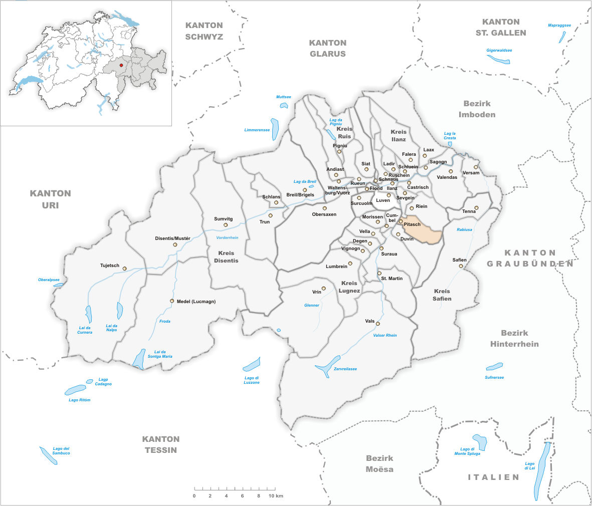 Municipality Pitasch